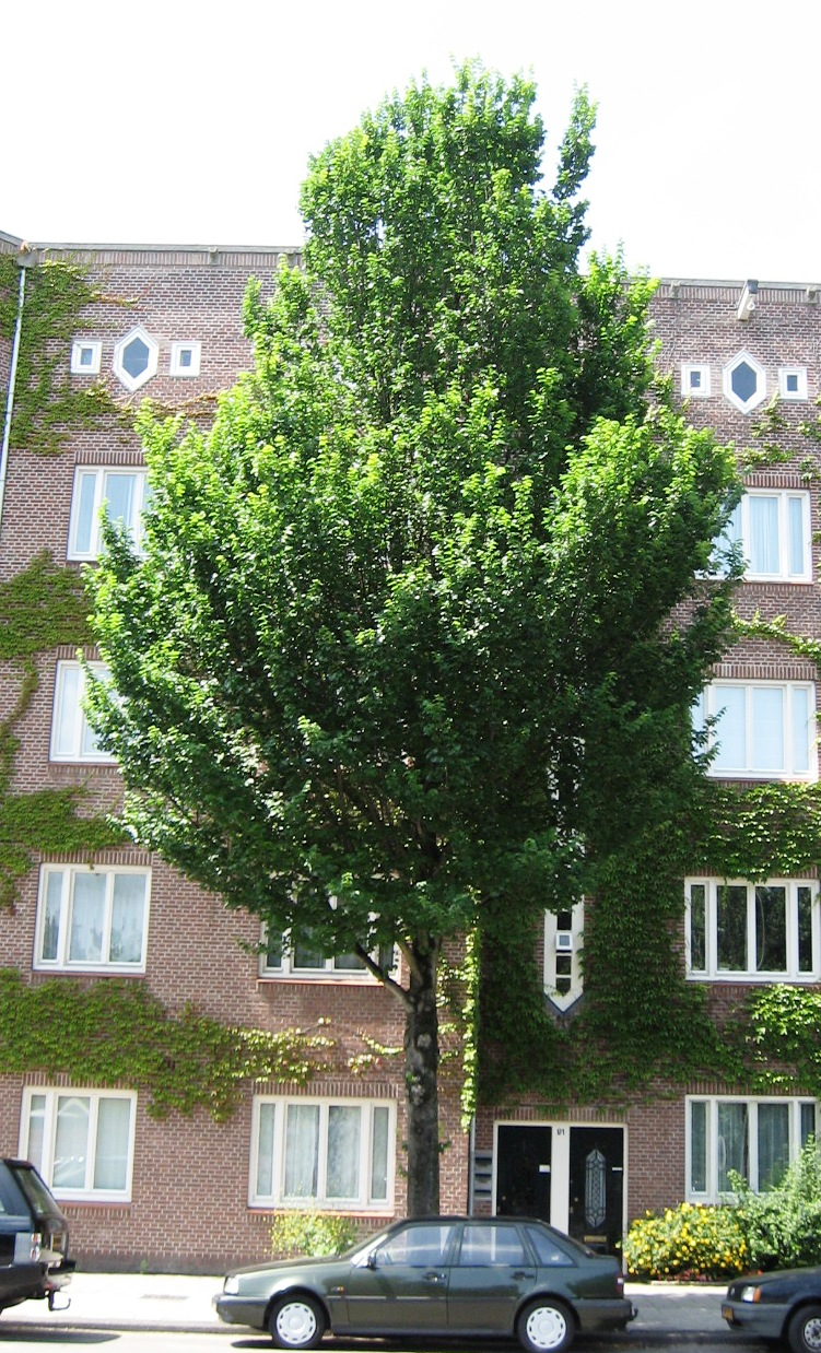 Ulmus 'Clusiud'; Photo by Ronnie Nijboer